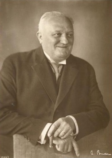 Portrait of German actor Wilhelm Diegelmann (1861–1934) by Alexander Binder, Berlin.